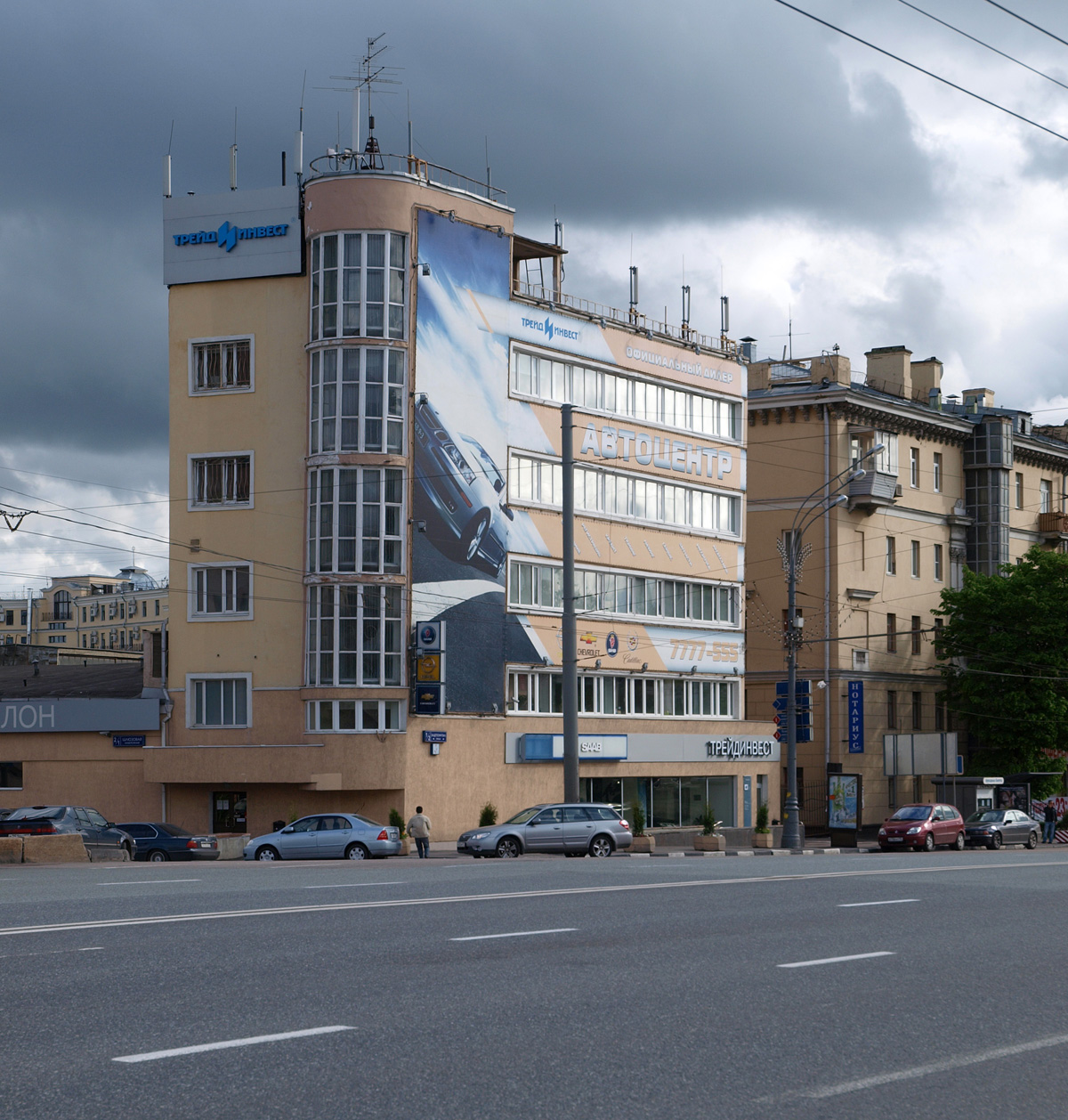 Zatsepsky Val Street, Moscow